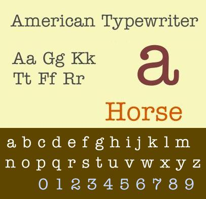 Specimen from the ITC American Typewriter font